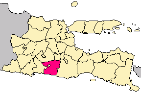 Blitar county in East Java province, Indonesia is beautiful recidens